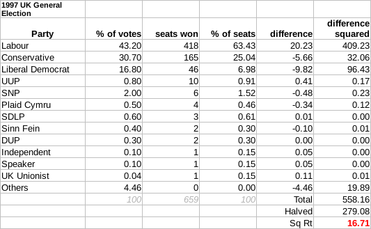 Gallagher Index, 1997 UK General Election